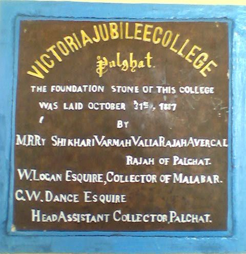 The foundation stione of Govt. Victoria College, Palakkad.... it says.." The Foundation Stone of this College was laid on October 31st 1887, by The Rajah of Palghat Kerala.